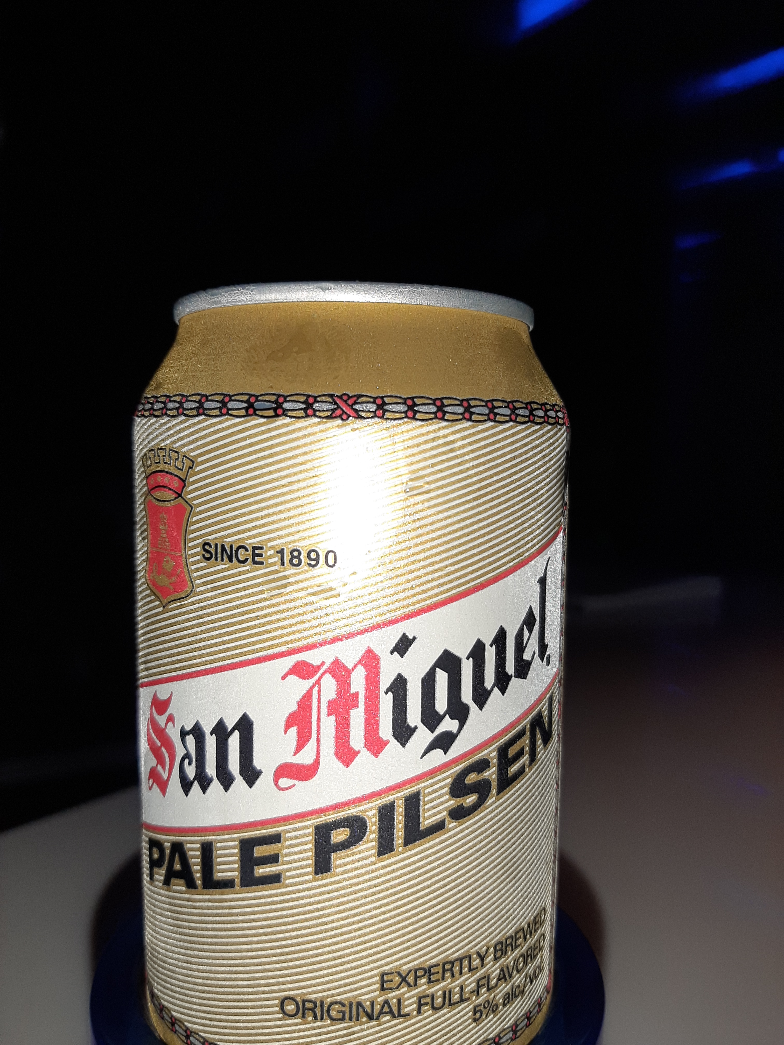 San Miguel Pale Pilsner with a ALC of 5%